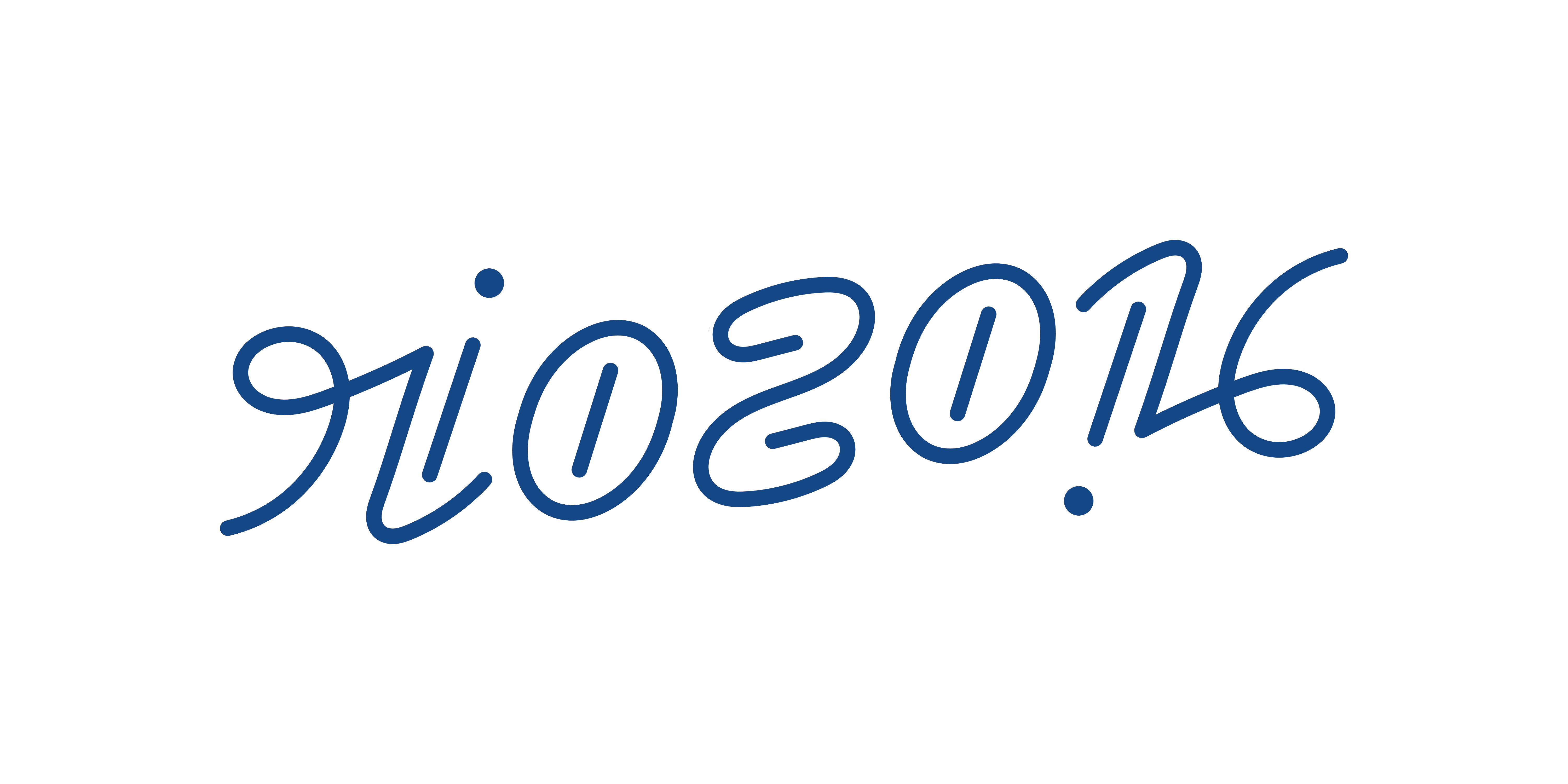 Ambigram Rio 2016. 180° rotational symmetry. Logo created for the summer olympics in Rio de Janeiro in 2016.